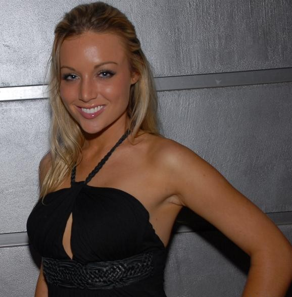 Kayden Cross at CoD